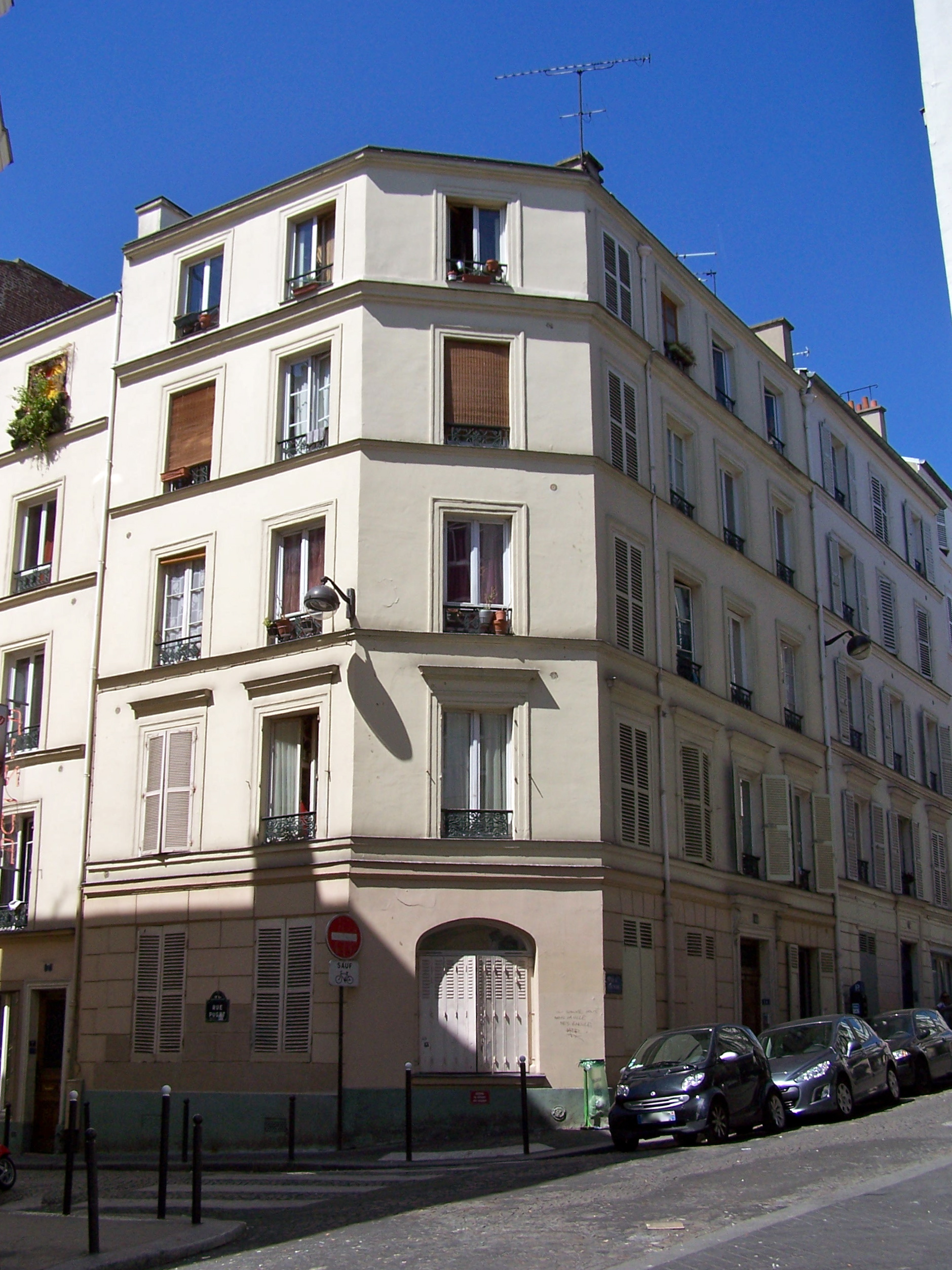 Immeuble du 11, rue Coustou